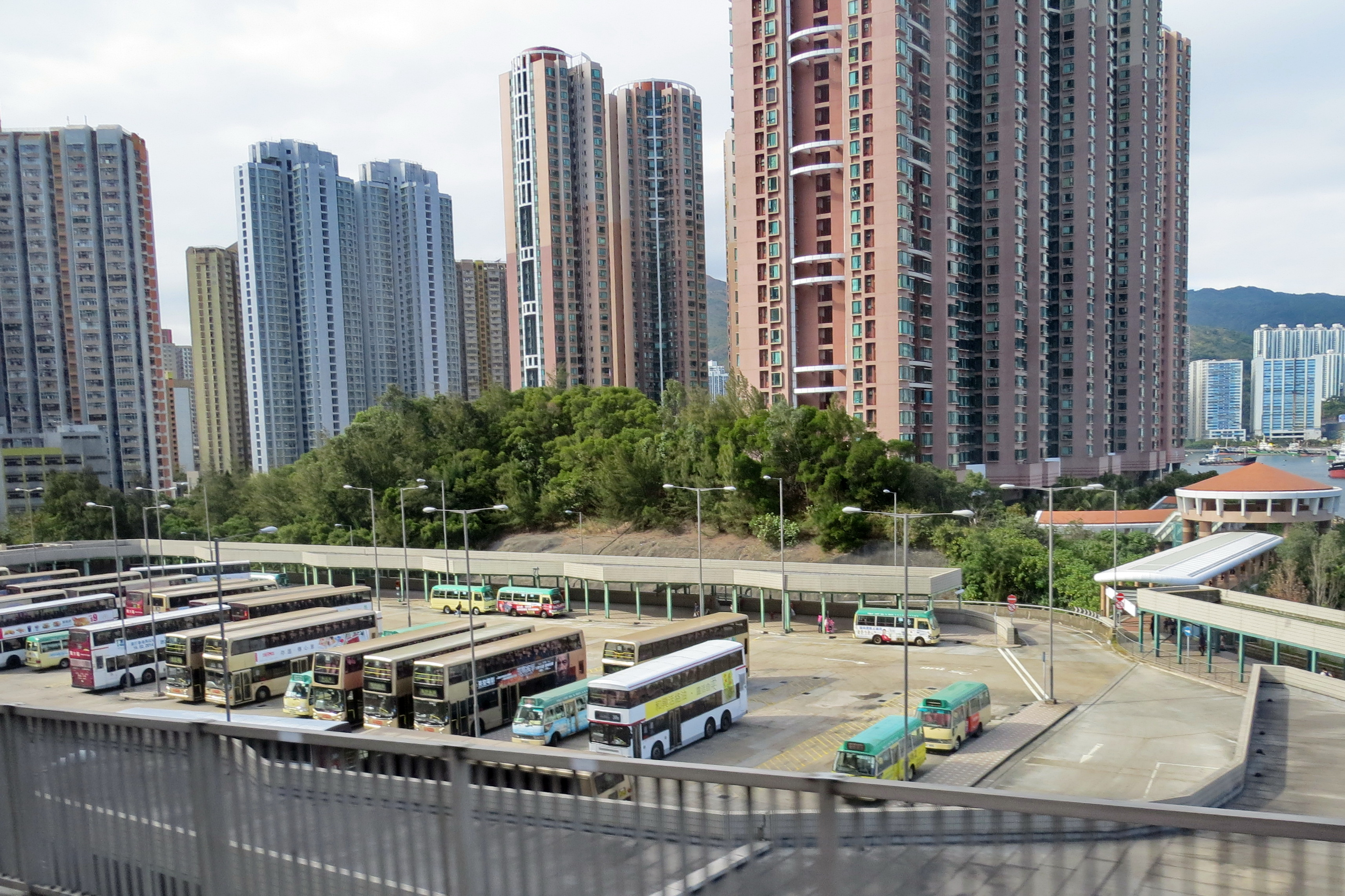 Tsing Yi Railway Station Bus Terminal, New Territories, Hong Kong.